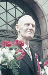 Alv Kjøs